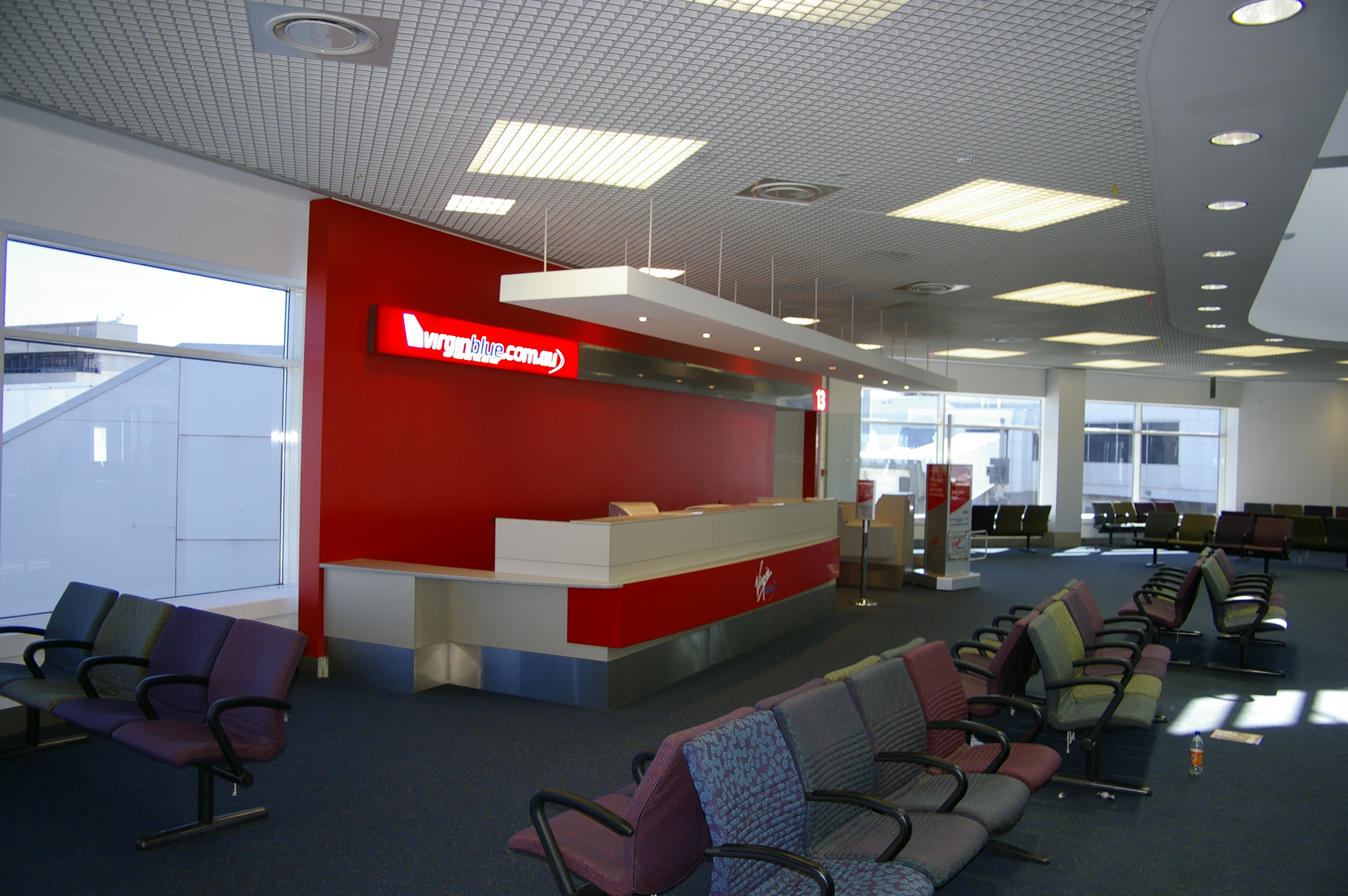 Melbourne Airport. Gate 13 at T3